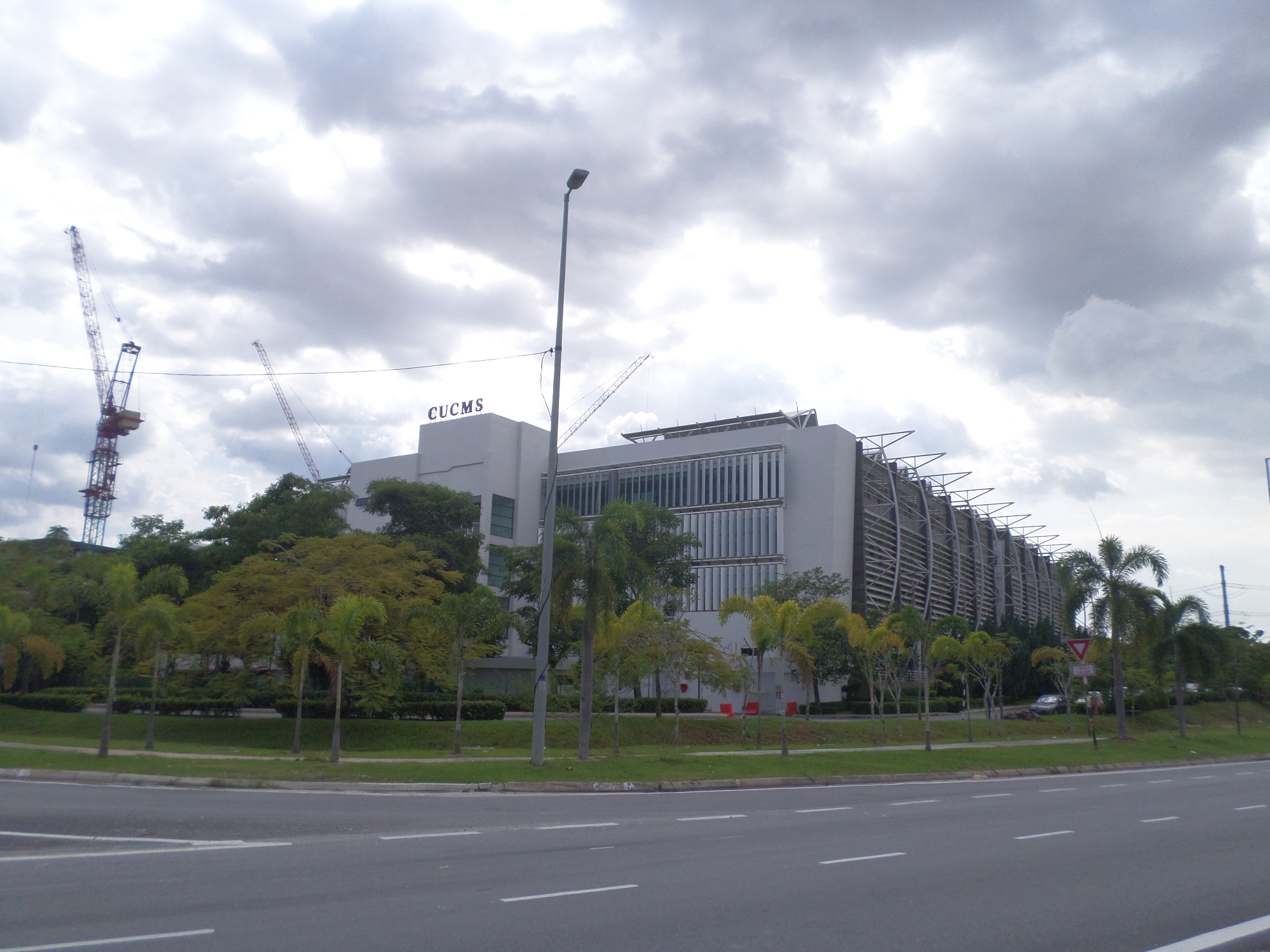 Cyberjaya University College of Medical Sciences, Cyberjaya, Sepang, Selangor, Malaysia